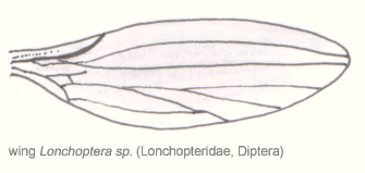 Diptera - Lonchopteridae - wing